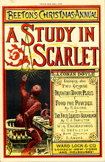 Beaton’s Christmas Annual: A Study in Scarlet of Arthur Conan Doyle